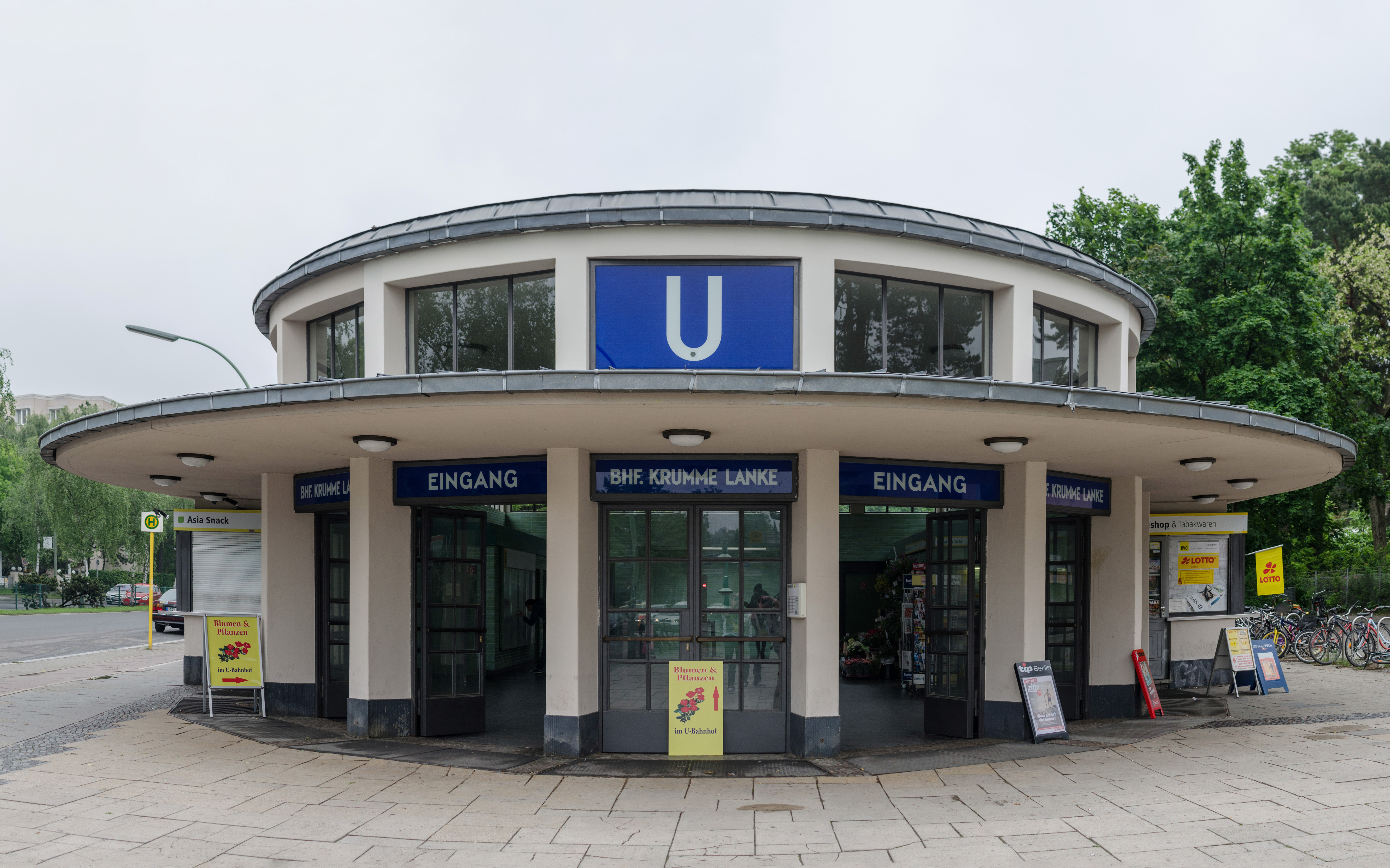 The entry building of the subway station Krumme Lanke in Berlin-Zehlendorf